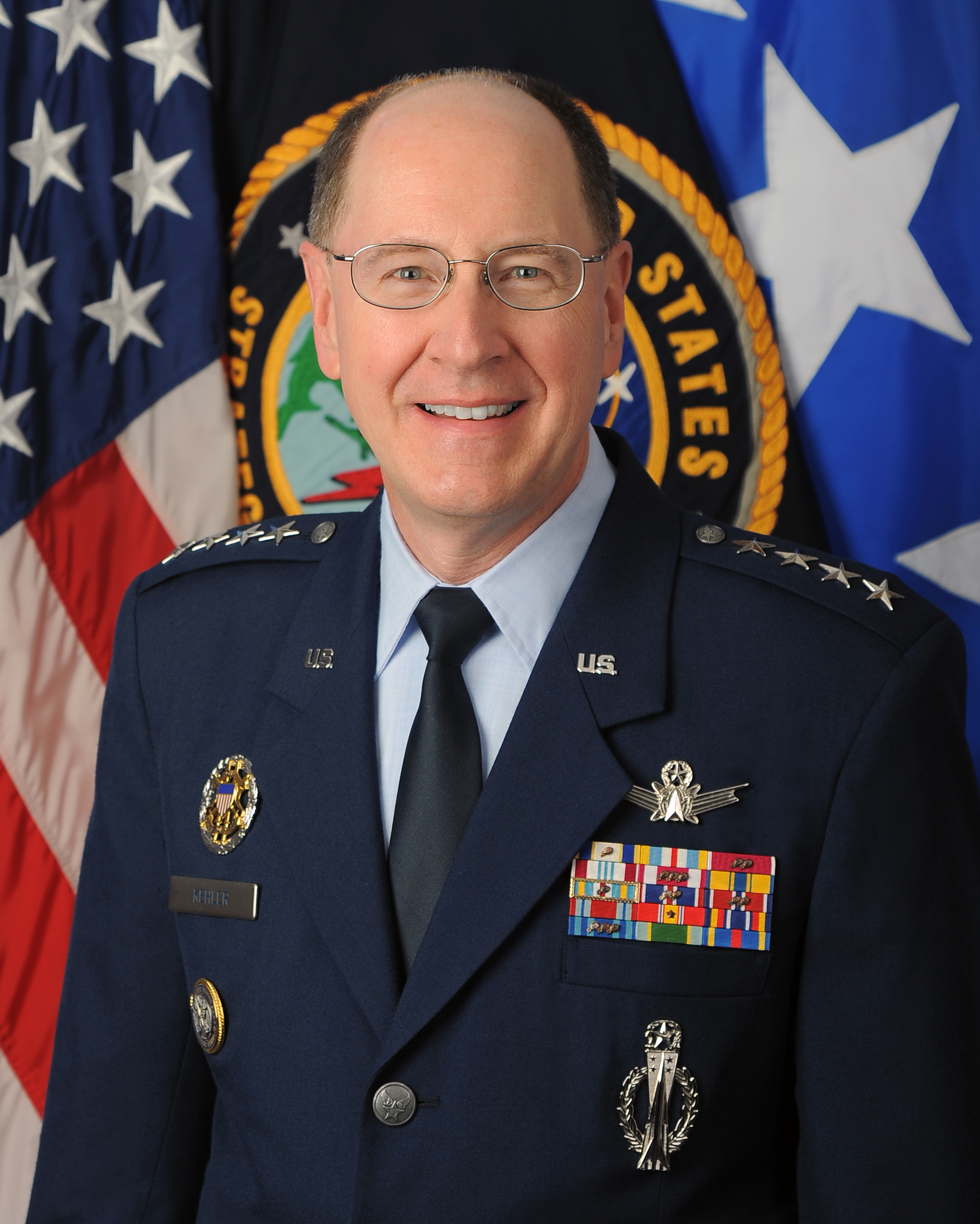 General C. Robert Kehler, USAF